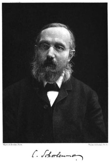 Picture of Carl Schorlemmer, the German writer and historian of chemistry